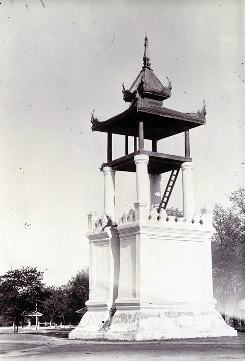 Photograph of the Clock Tower at Mandalay in Burma (Myanmar) from the Archaeological Survey of India Collections: Burma Circle, 1903-07. The photograph was taken in 1903 under the direction of Taw Sein Ko, the Superintendent of the Archaeological Survey of Burma at the time. Mandalay was founded in 1857 and became Burma’s last royal capital. At its heart was a square citadel containing the Nandaw or Royal Palace. The clock tower stood inside the palace grounds, next to the East Gate which was the main entrance. The building consisted of a wooden platform crowned with a tiered roof, mounted on a high masonry plinth. In his ‘Guide to the Mandalay Palace’ (Rangoon, 1925), a later Superintendent of the Burma Archaeological Survey, Charles Duroiselle, described the workings of the clock tower: “It is from this platform that the passing of time was made known to the city by sounding regularly a gong and a very large drum at each watch, that is, every third hour; the day and the night were each divided into four watches. The time was marked by a clepsydra or water-clock. This consisted of a large water jar on the water of which was placed a brass bowl; in the bottom of the latter was pierced a tiny hole, its size so calculated that the bowl filled with water and dropped to the bottom of the jar at exact recurring intervals, which were the hours…The enormous drum on which the hours were sounded is now in the Phayre Museum at Rangoon.”